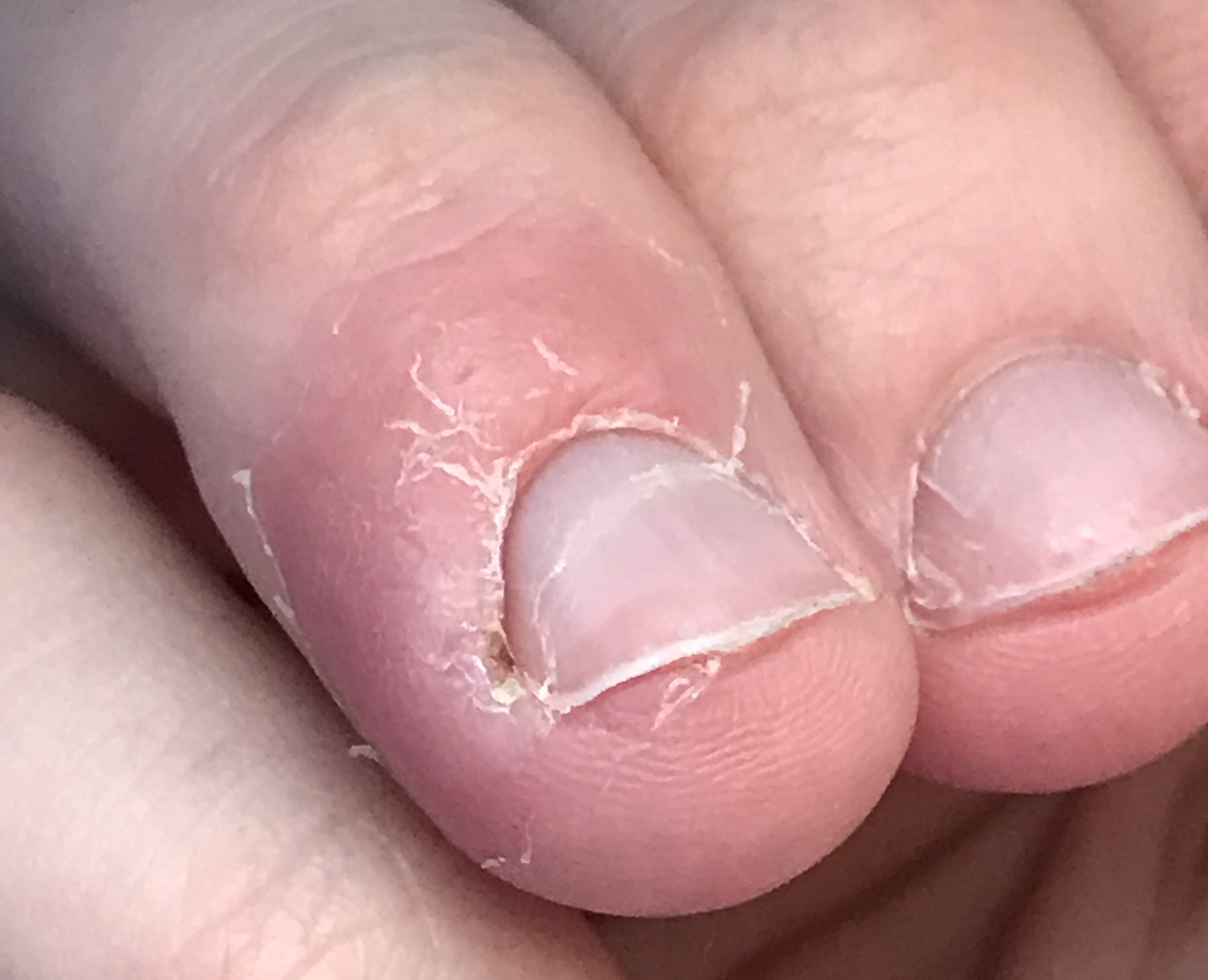 Wanted to show a picture of how a once-infected Paronychia can make a finger peel the skin